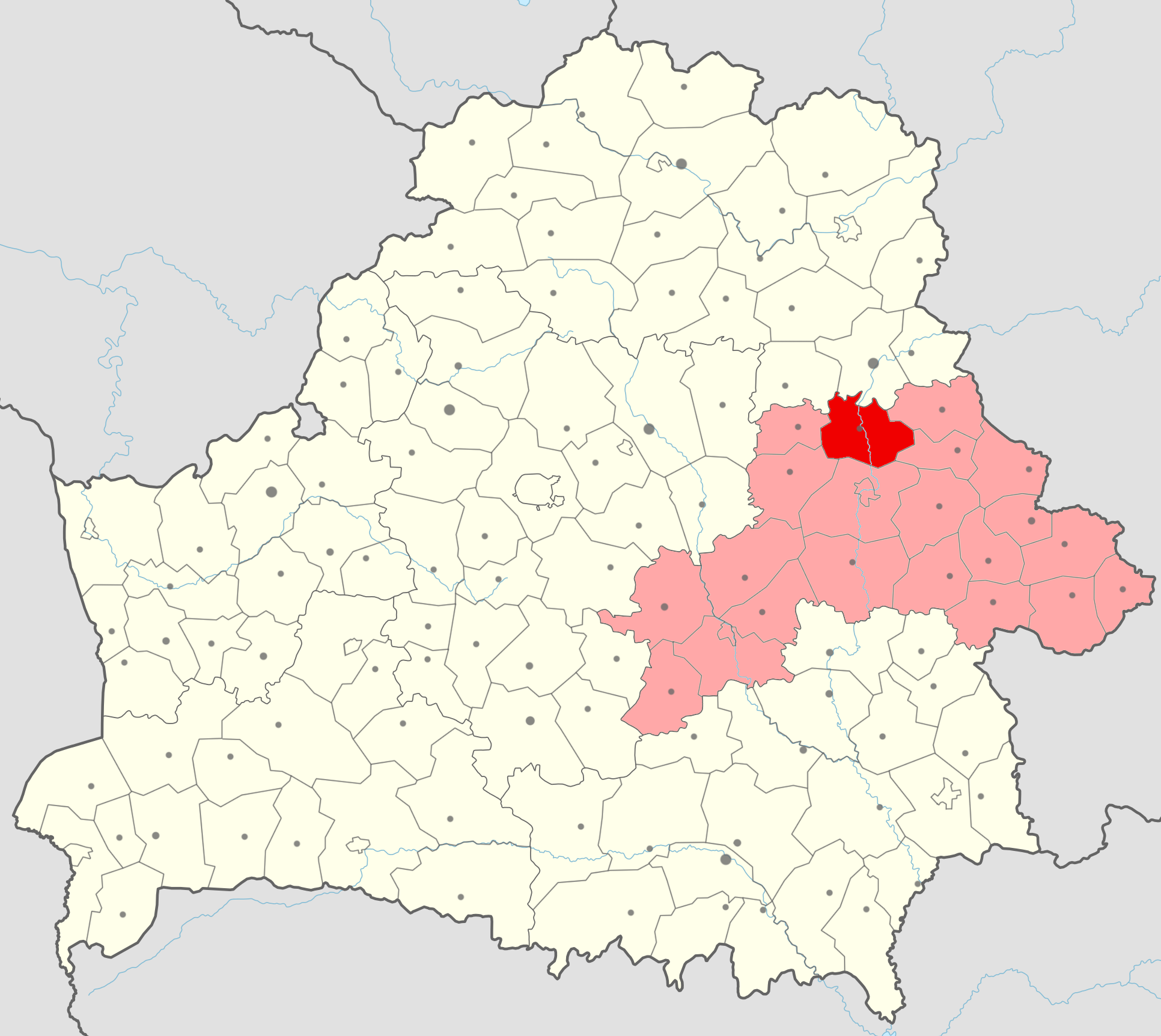 Location of Škloŭski rajon (red) in Mahilioŭskaja voblasć (light red) in Belarus.